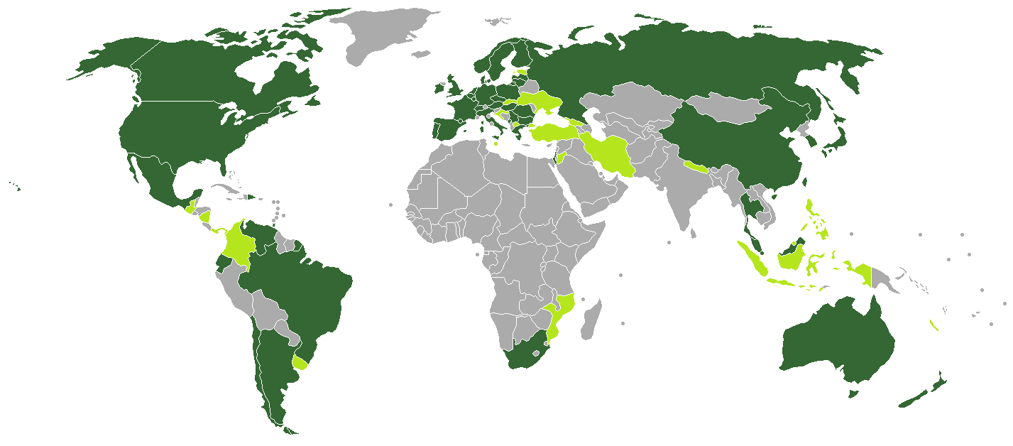 Distribution of Kendo federations. In dark green federations reconocidad by FIK. In light green Federations recognized by other agencies or in recognition process by FIK.